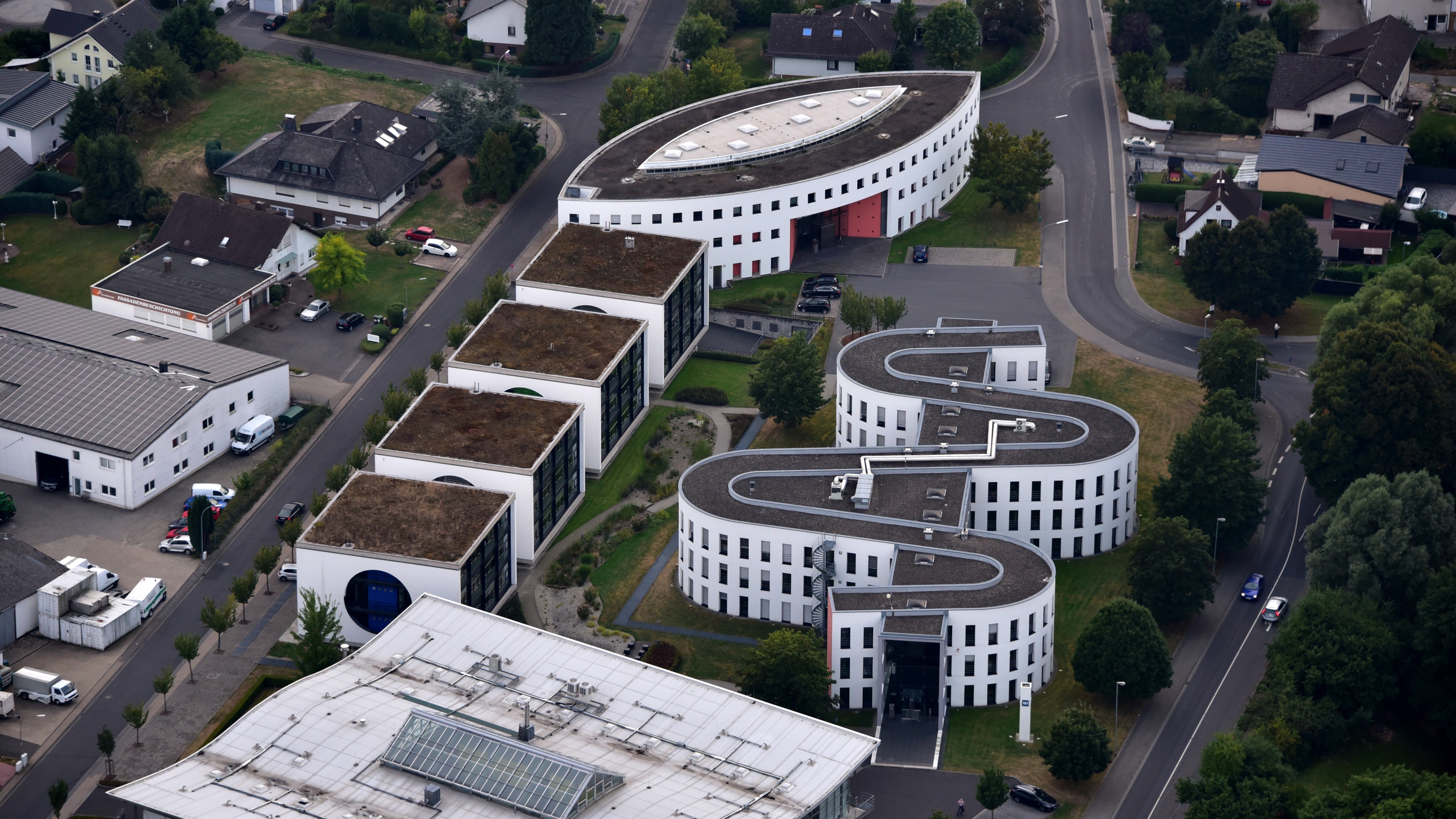 Montabaur, Germany (2016): Aerial view of the headquarter of “United Internet AG”.